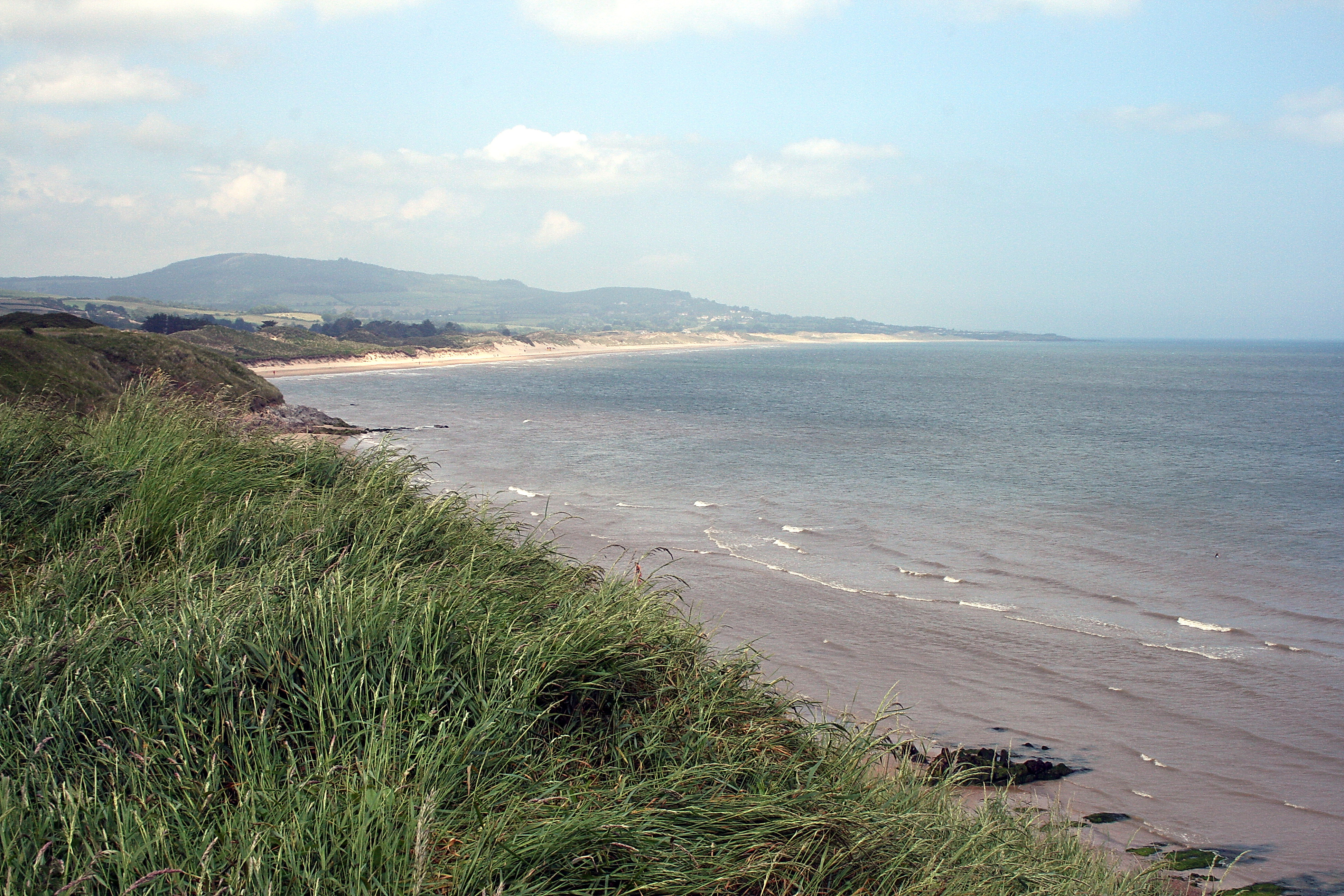 Brittas Bay, County Wicklow